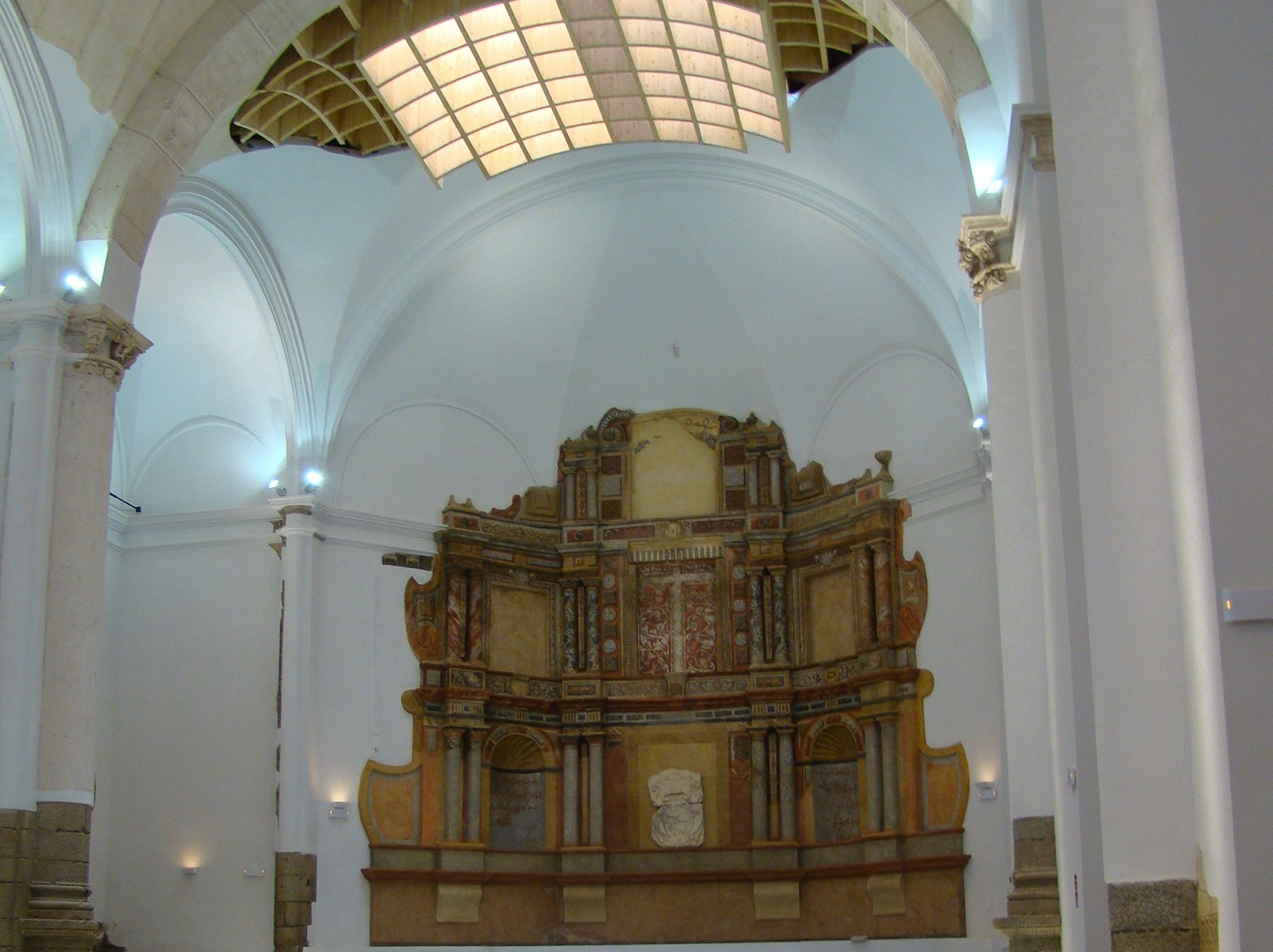 Church of San Francisco